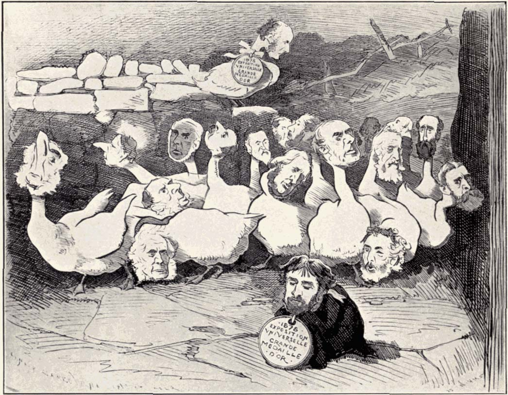 There was some envy form the part of RA members on the medal gained by a newcomer who was not RA, and therefore was only allowed to submit two oils.